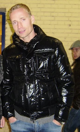 cropped from a photo with myself